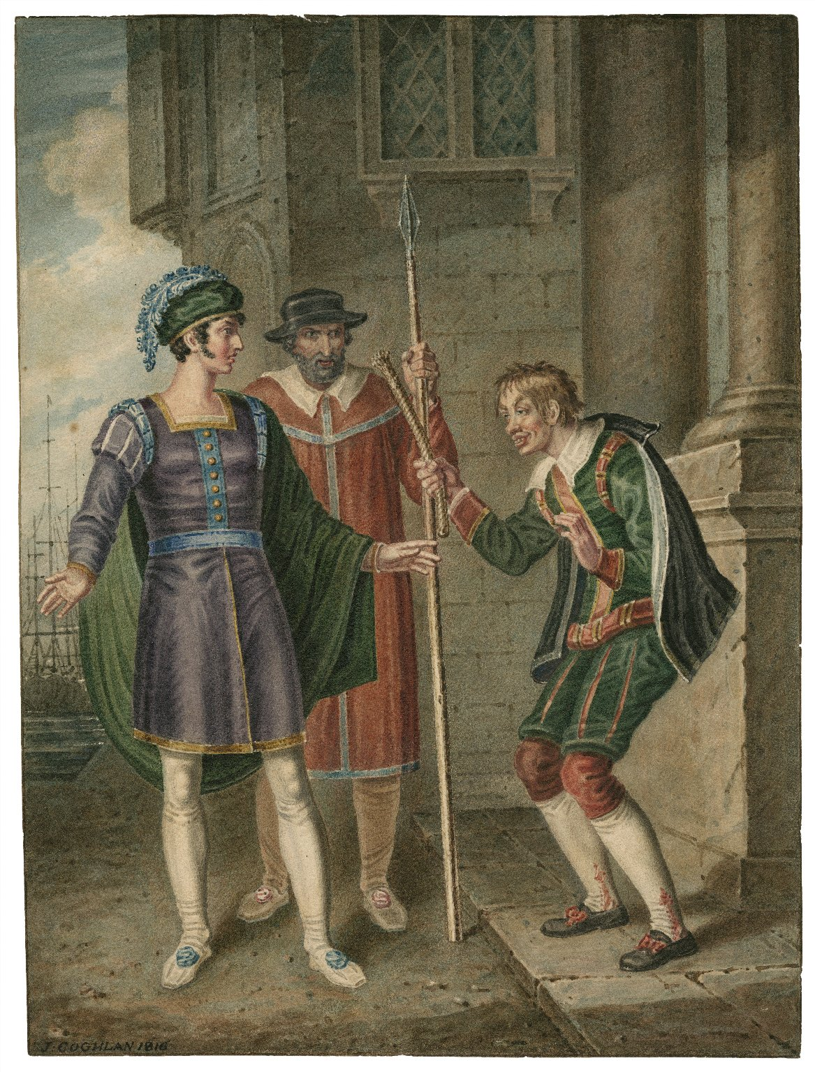 An 1816 watercolor of Act IV, Scene i: Antipholus of Ephesus, an officer, and Dromio of Ephesus